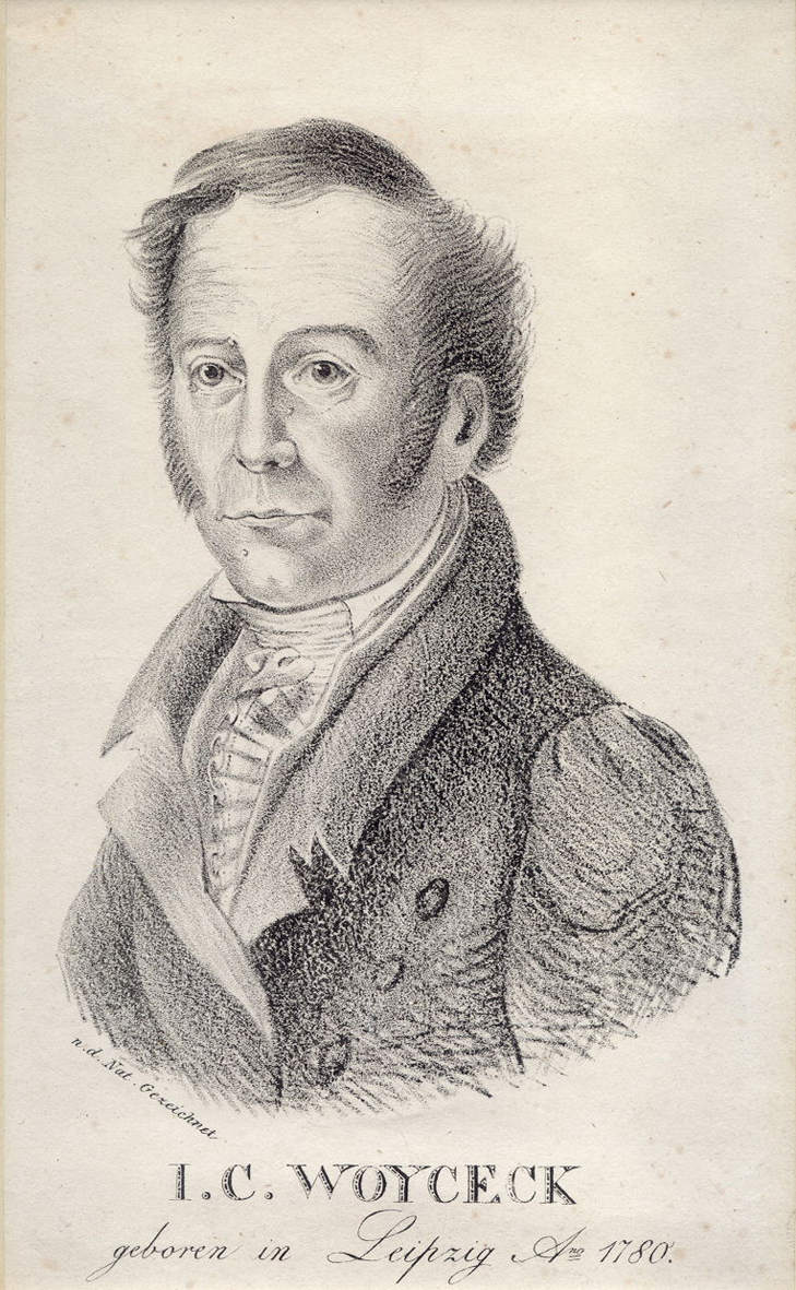 Johann Christian Woyzeck, Lithography, around 1822